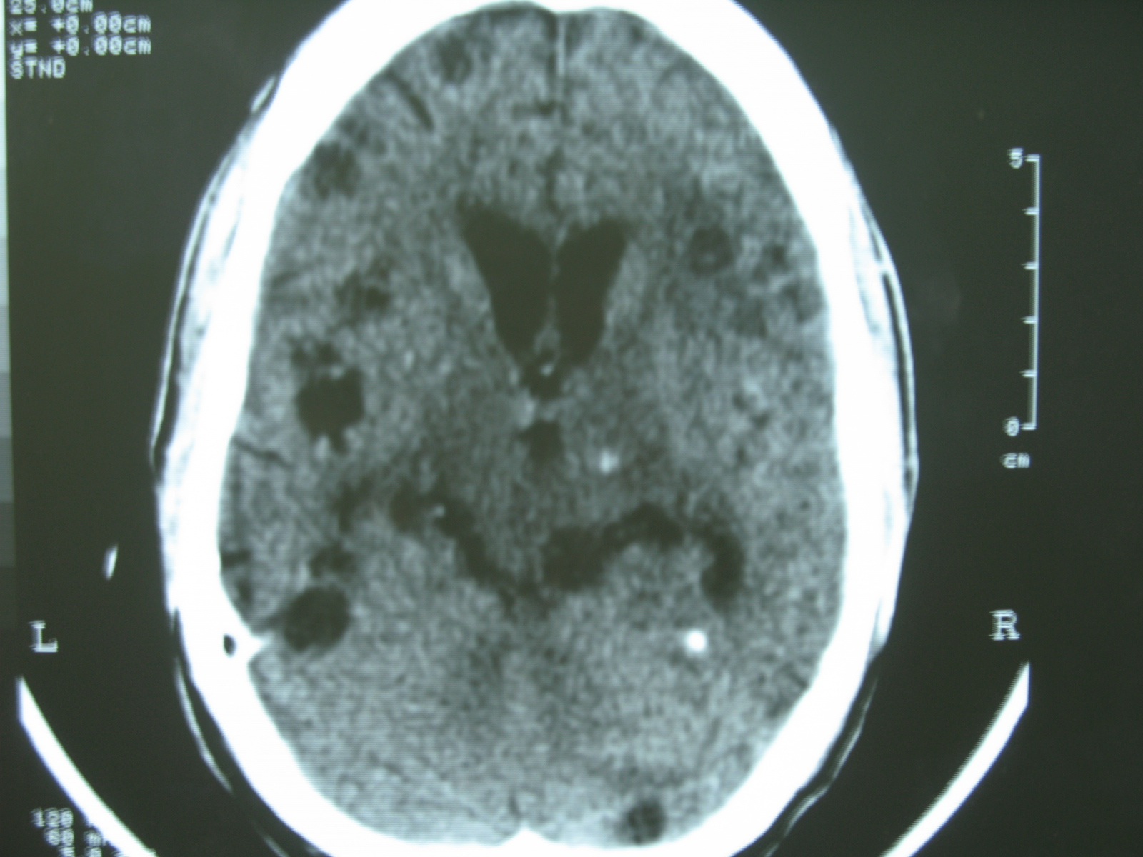 active cysticercus in human brain